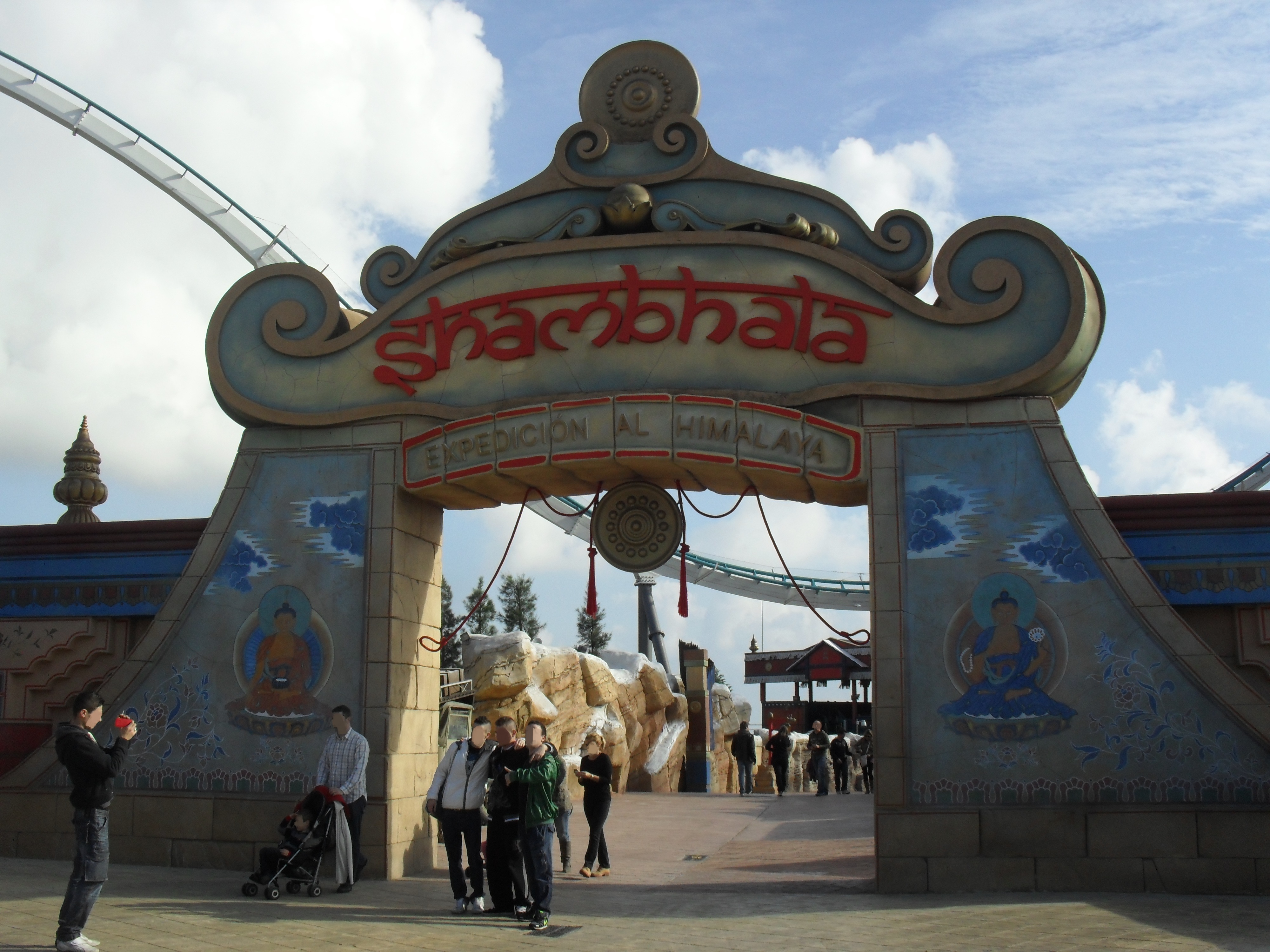 Entrance of the Shambhala zone at PortAventura, Spain